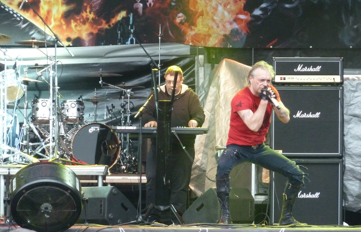 Konstantin Kinchev with the Russian rock band Alisa performing at Kavarna Rock Fest 2013, Bulgaria.